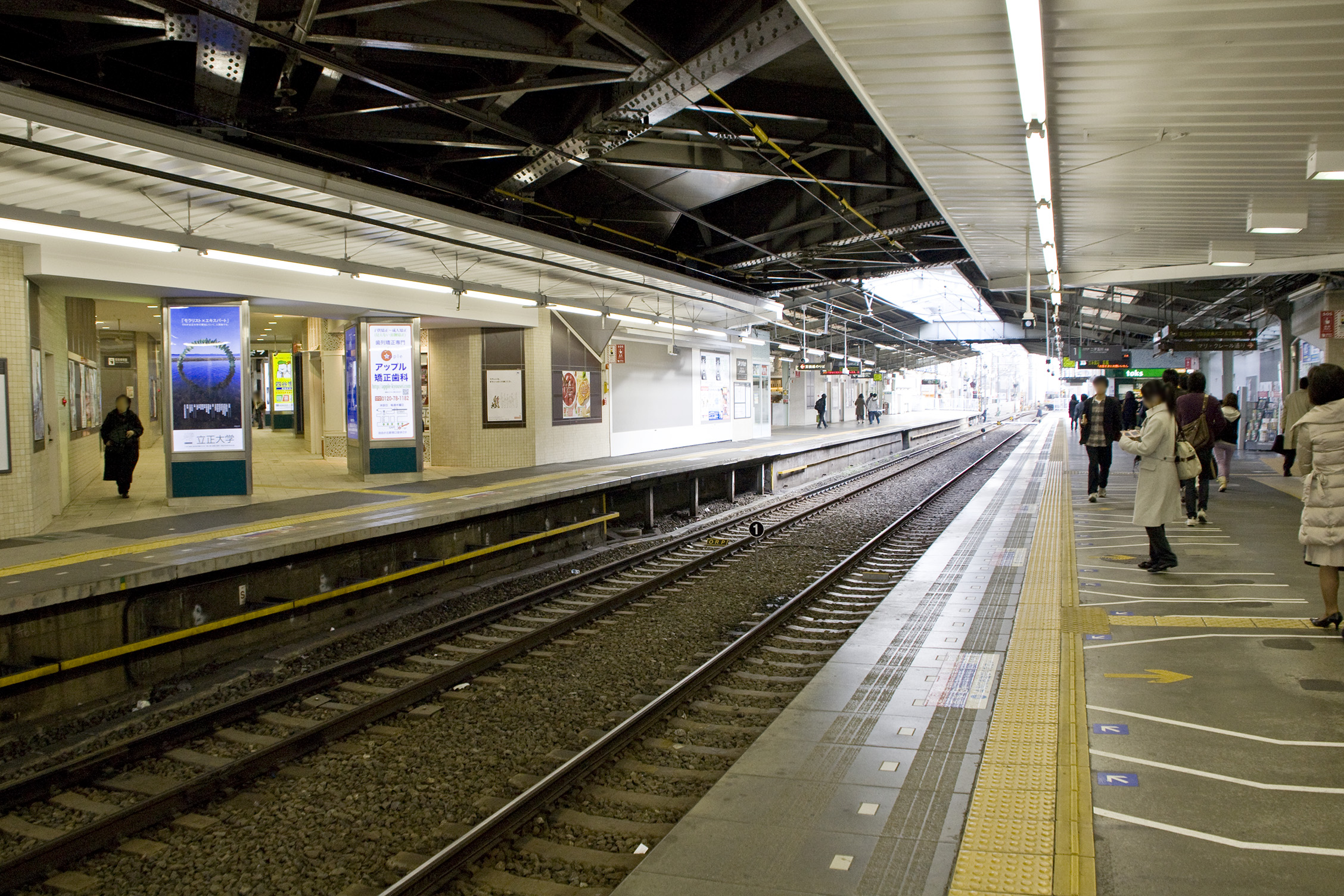 Jiyūgaoka Station Platform No1-2